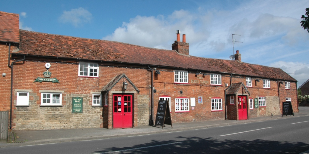 Red Lion pub, Abingdon Road, Drayton, Vale of White Horse, Oxfordshire (formerly Berkshire)